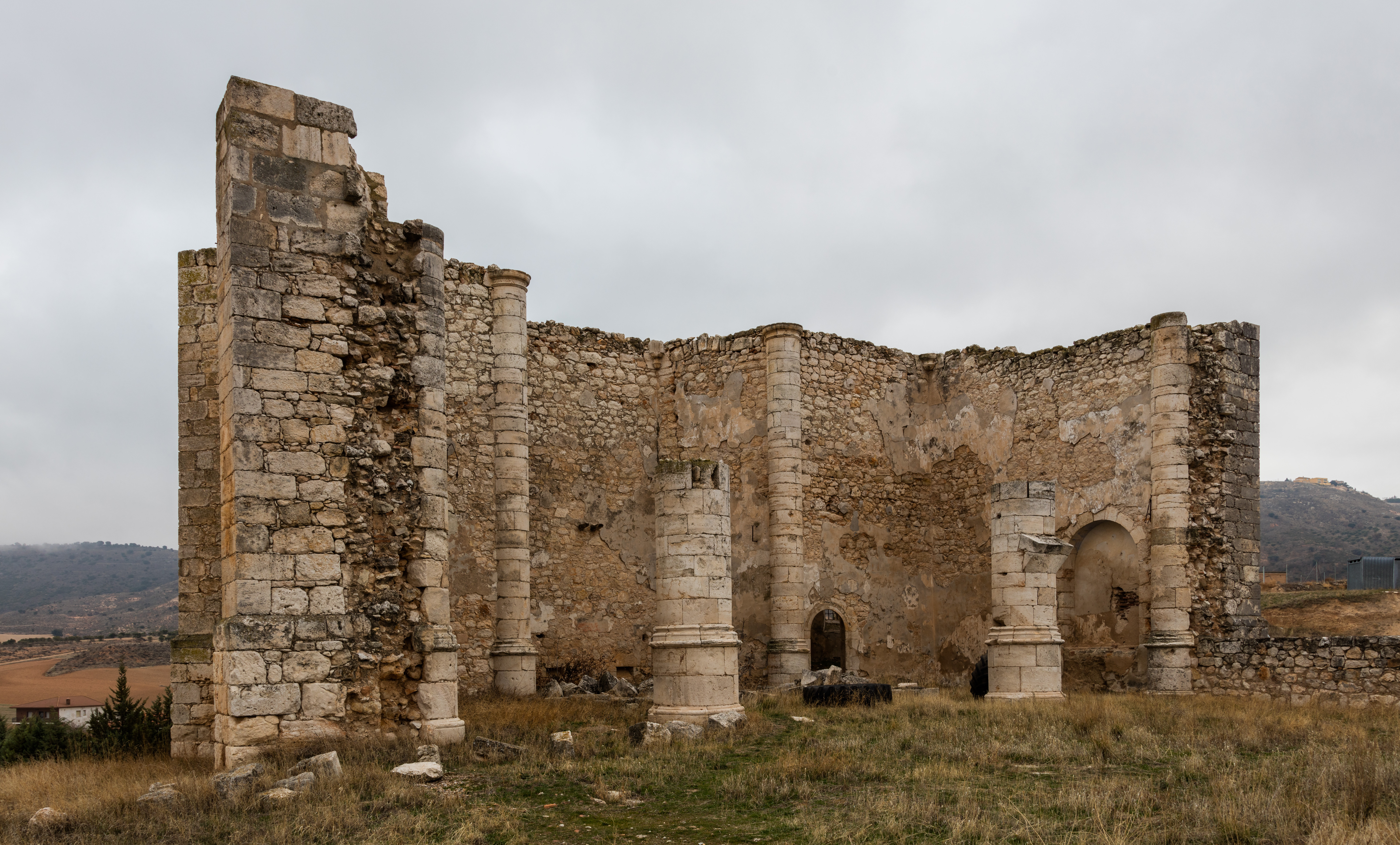 Remains of the church of Our Lady of the Assumption, Valdearenas, Guadalajara, Spain